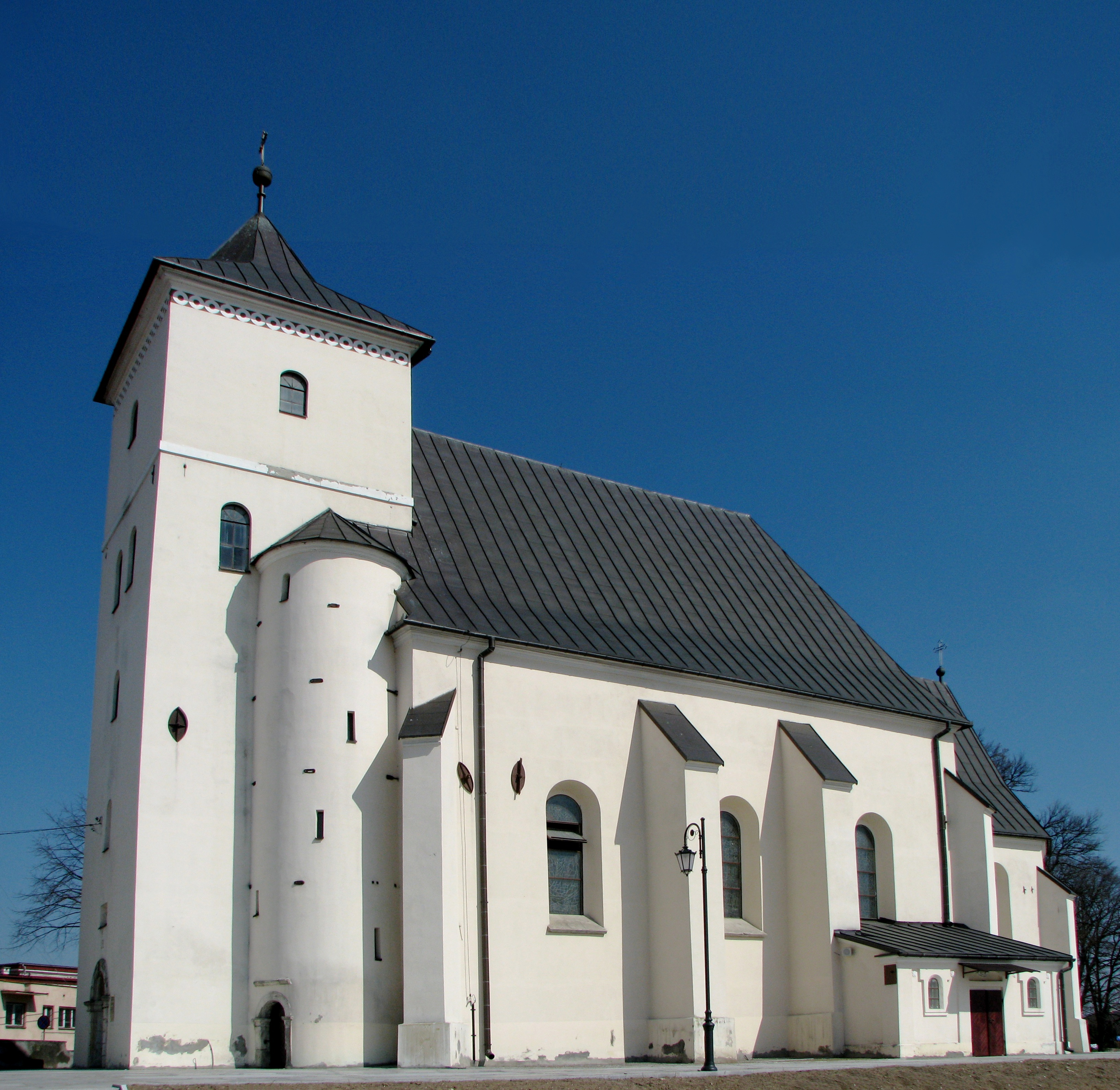 St. Bartłomiej Church in Staszów, Poland.